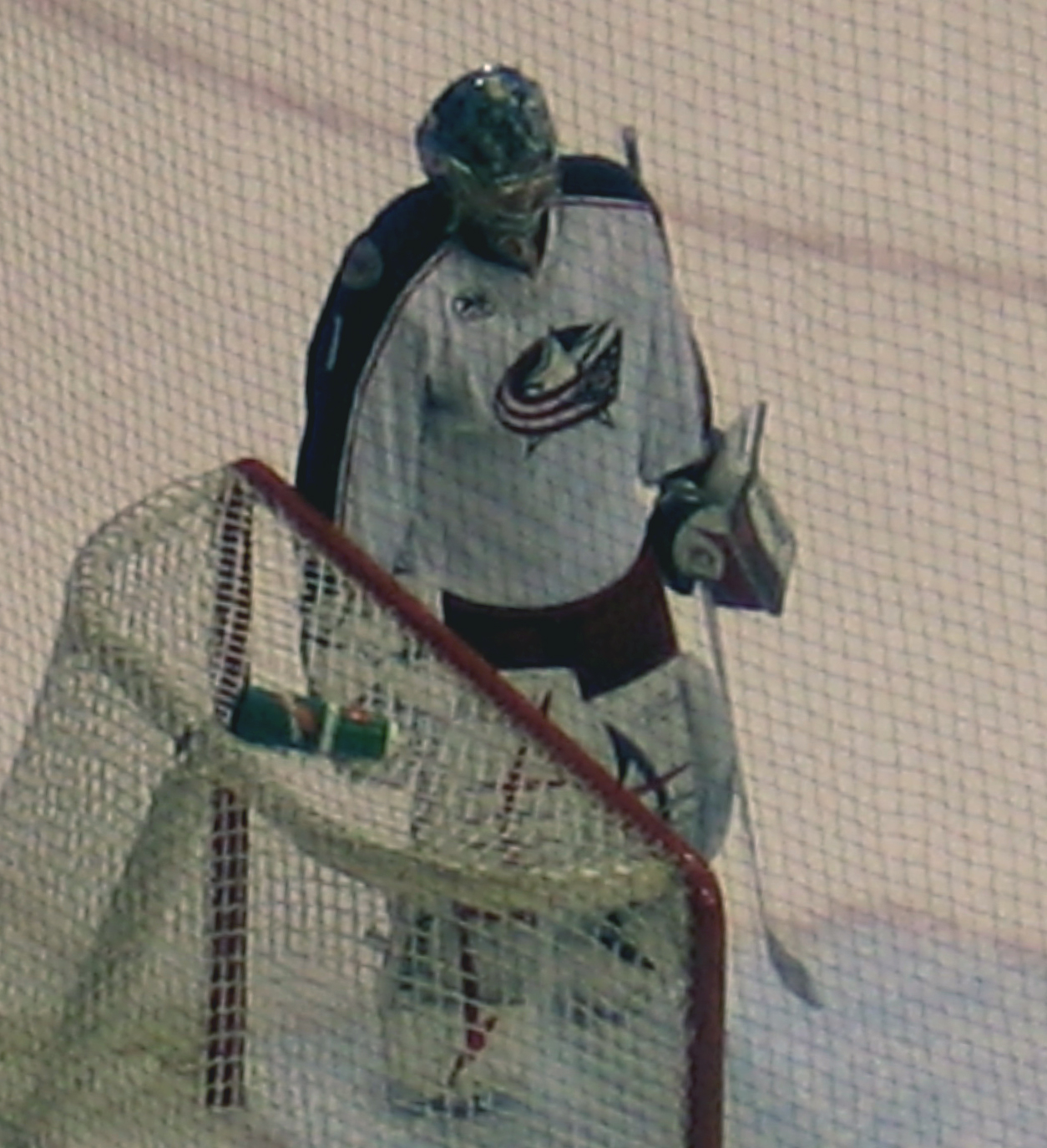 Steve Mason of the Columbus Blue Jackets warming up at GM Place in Vancouver before playing the Vancouver Canucks on January 18, 2009.